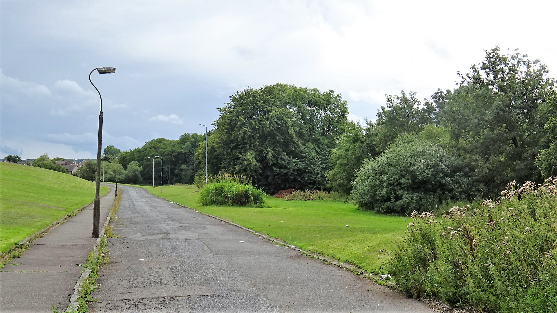 Maxholm (Monk's Holm) Road, Riccarton, East Ayrshire, Scotland. The Maxholm Burn/Simon's Burn ran to the right where the line of trees are.